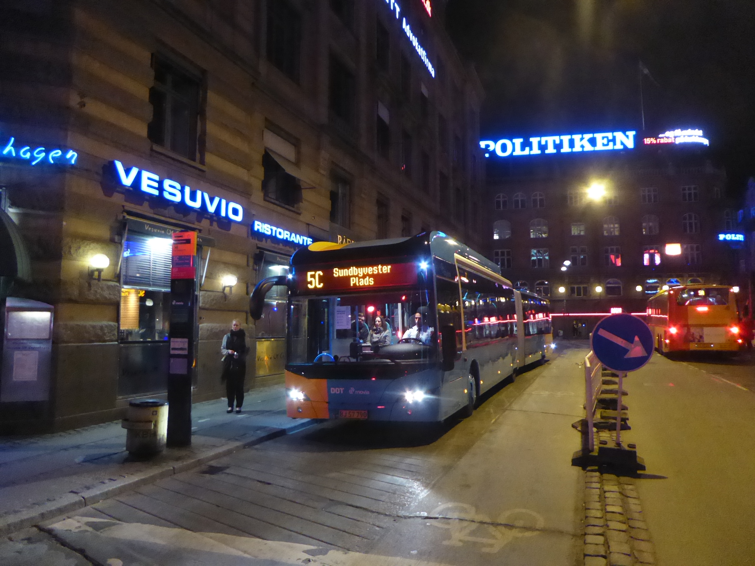 The very first Movia bus line 5C at Rådhuspladsen in Copenhagen.